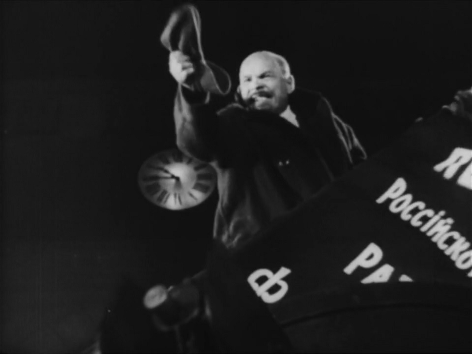 Lenin, as represented in a screenshot of Oktyabr (1928)